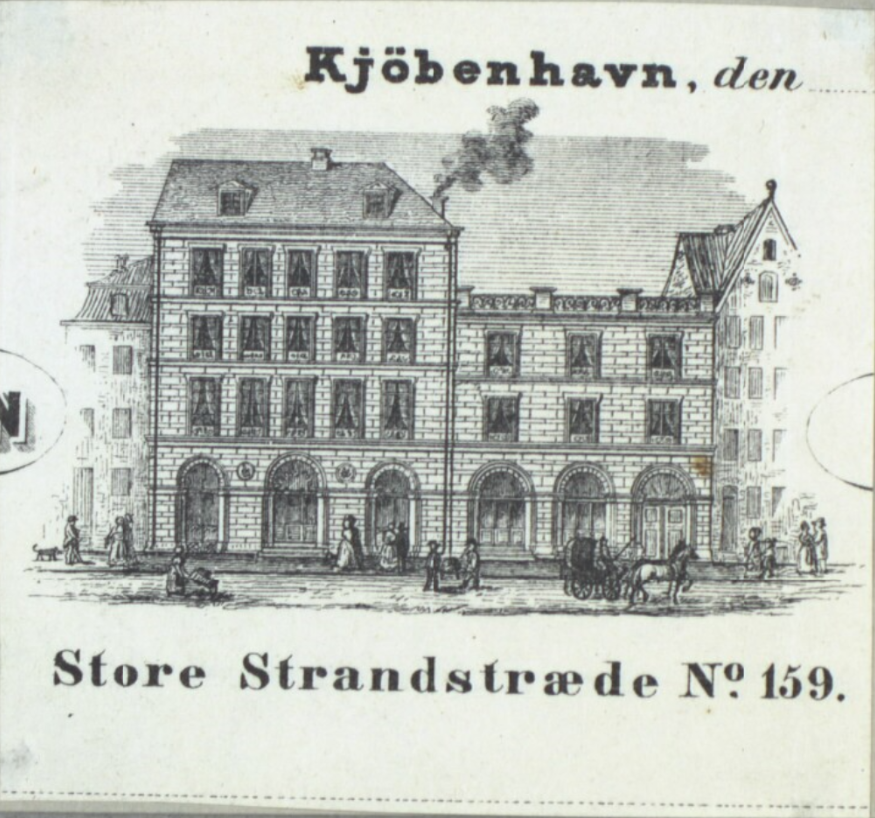 Advertisement featuring Store Strandstræde 3 in Copenhagen, Denmark